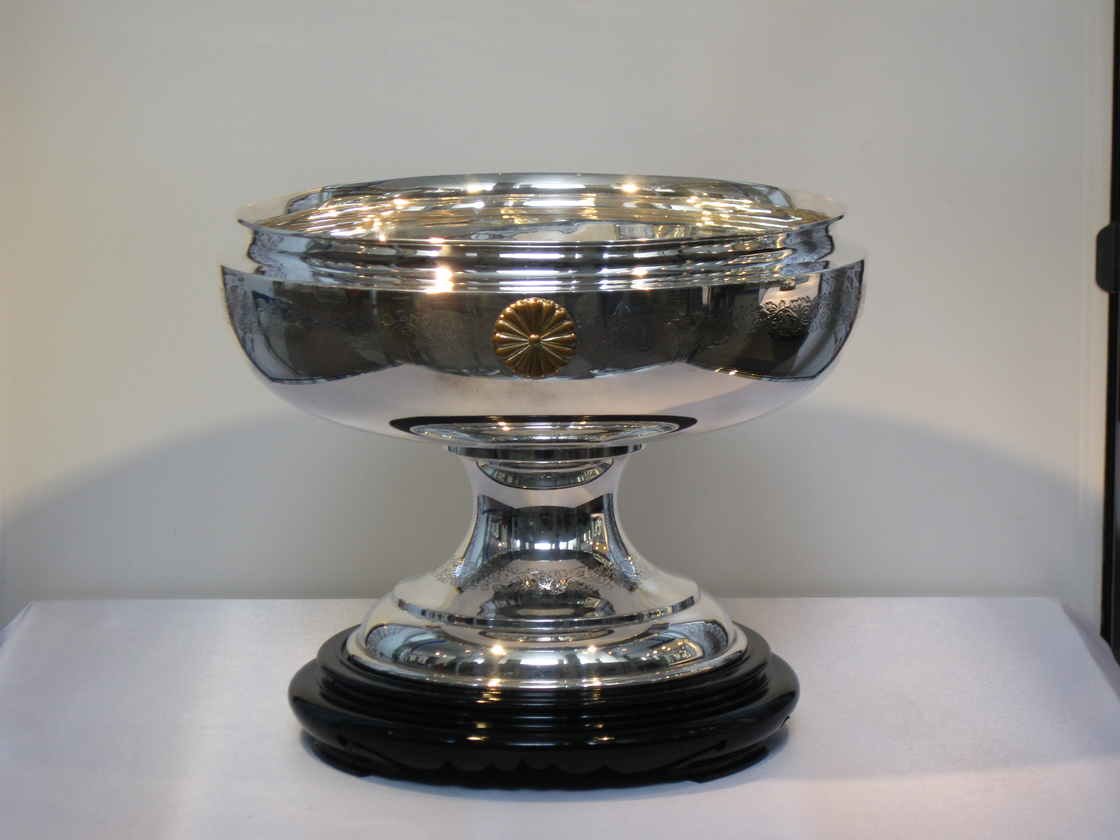 The trophy which goes to the champion team of the Emperor's Cup